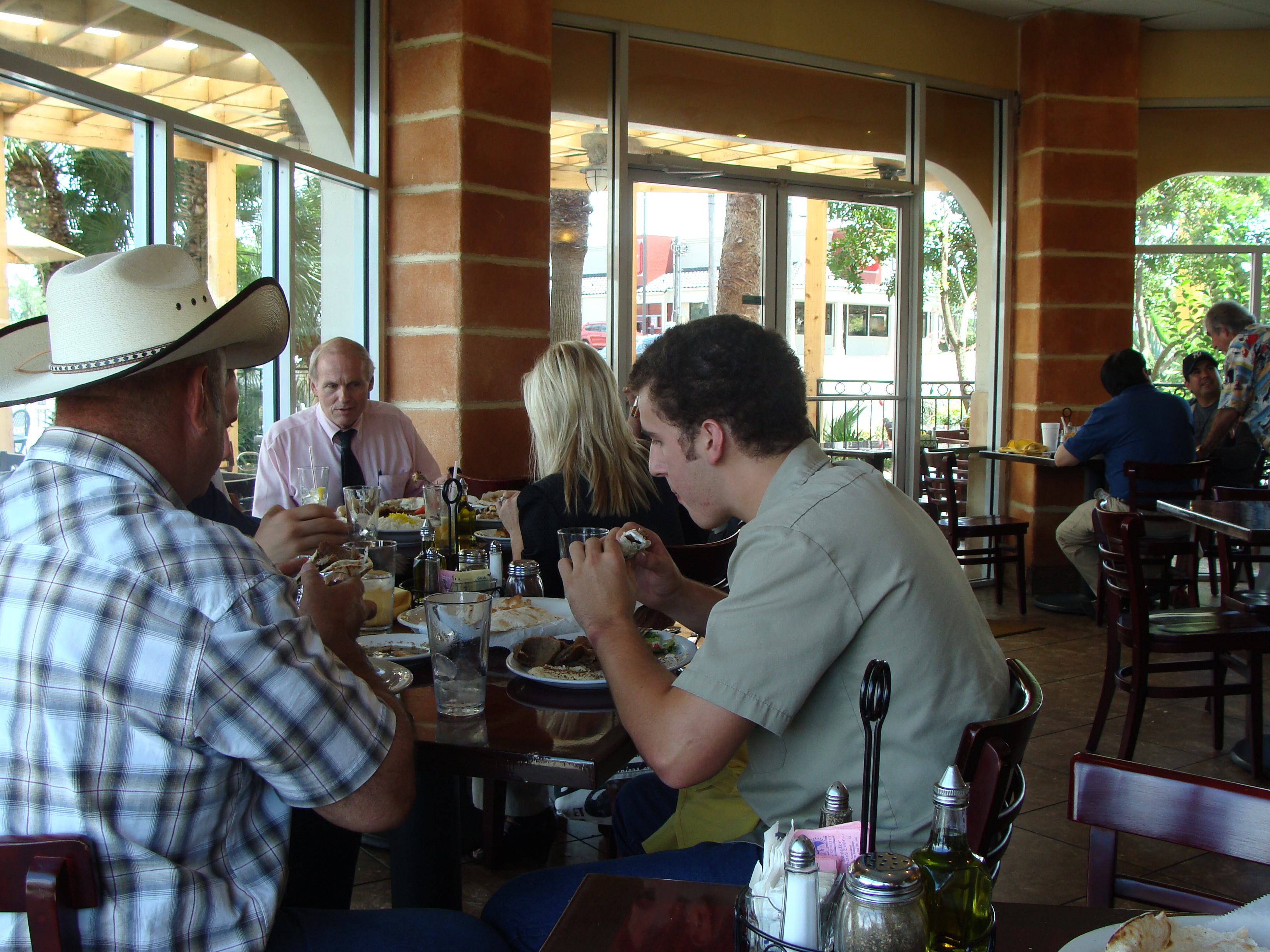 A Chelow-Kababi restaurant in San Antonio, Texas.